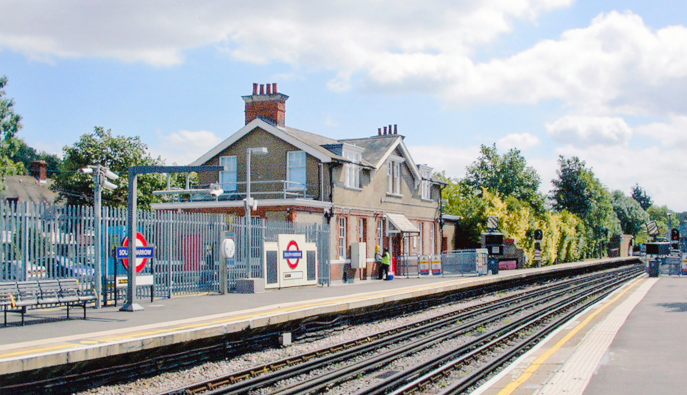 South Harrow station, Piccadilly Line. View southward on the line from Uxbridge and Rayners Lane, towards Acton Town, Piccadilly Circus, King's Cross St Pancras and Cockfosters: London Underground. The Station House is privately occupied